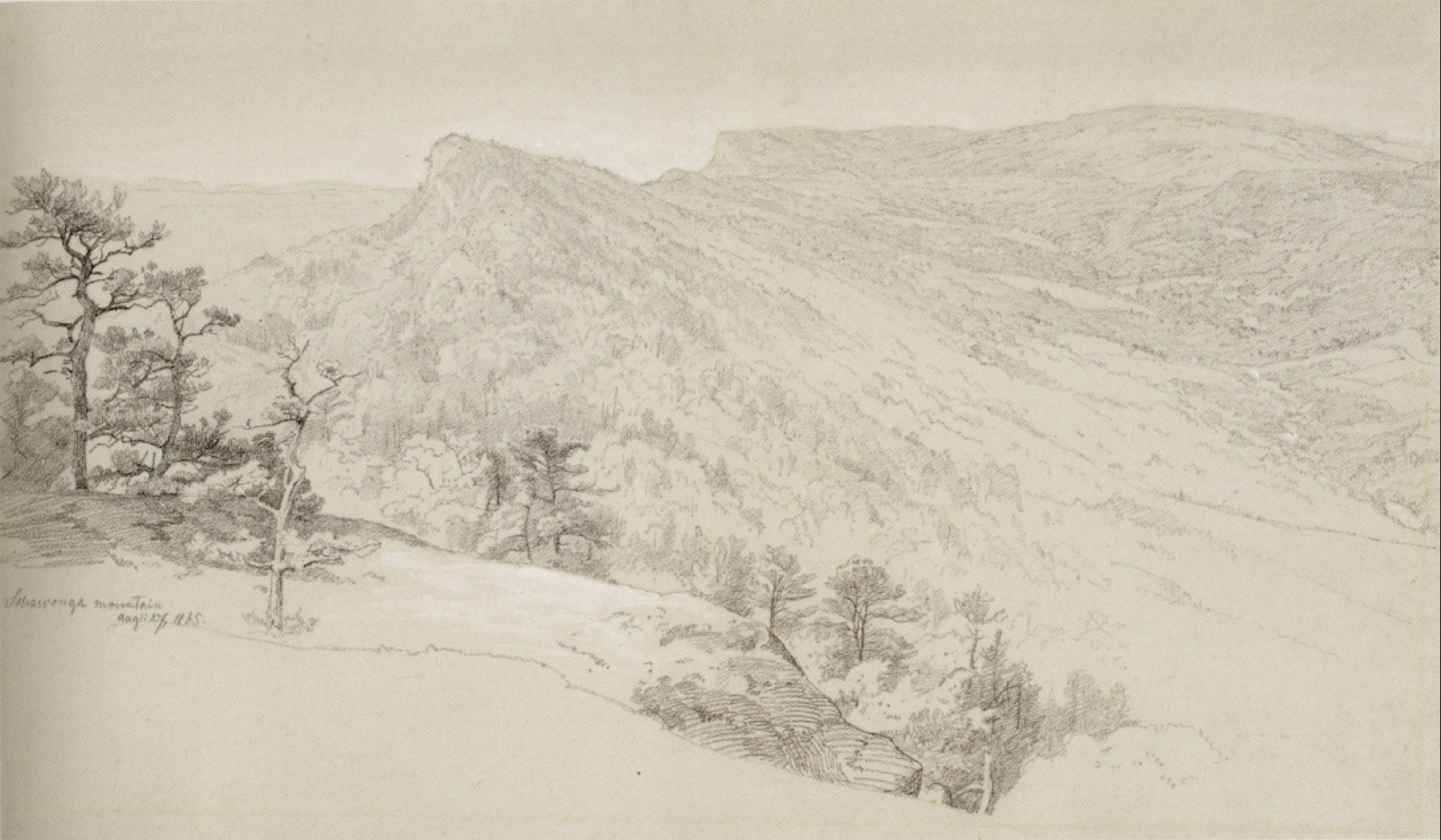 View of the Shawangunke Mountains, graphite with white heightening on paper by Johann Herman Carmiencke, 1865, Honolulu Museum of Art Native nameHonolulu Museum of ArtLocationHonolulu, USACoordinates21° 18′ 14″ N, 157° 50′ 54″ W Established1922Web page control : Q128316 VIAF: 818145858110423022196 ISNI: 0000 0004 4661 5836 LCCN: n2013015284 NRHP: 72000415 GND: 1063109698 WorldCat institution QS:P195,Q128316 , accession 25533